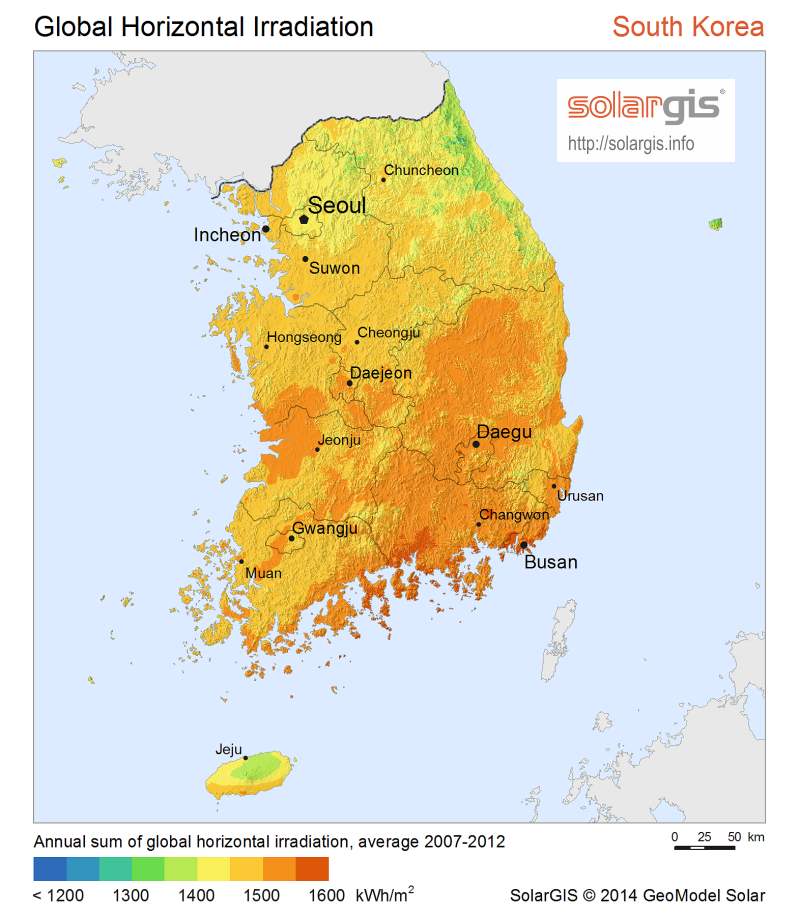 Solar Radiation Map: Global Horizontal Irradiation Map of South Korea, SolarGIS. English version.